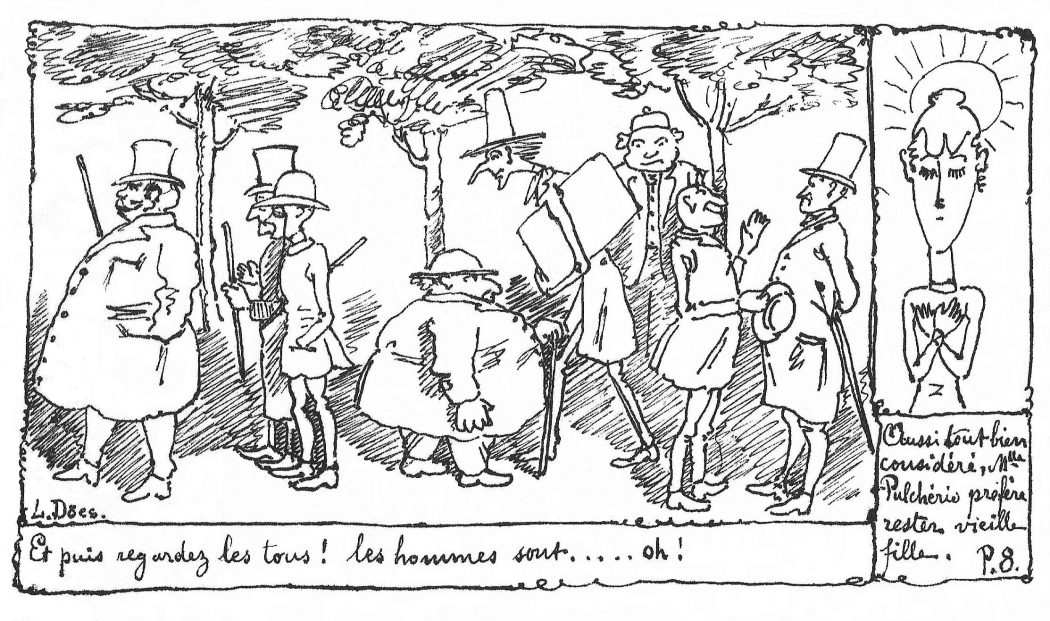 Page 8 of the book Les Prétendues de mademoiselle Pulchérie, by Louis-Christian Does (1884).